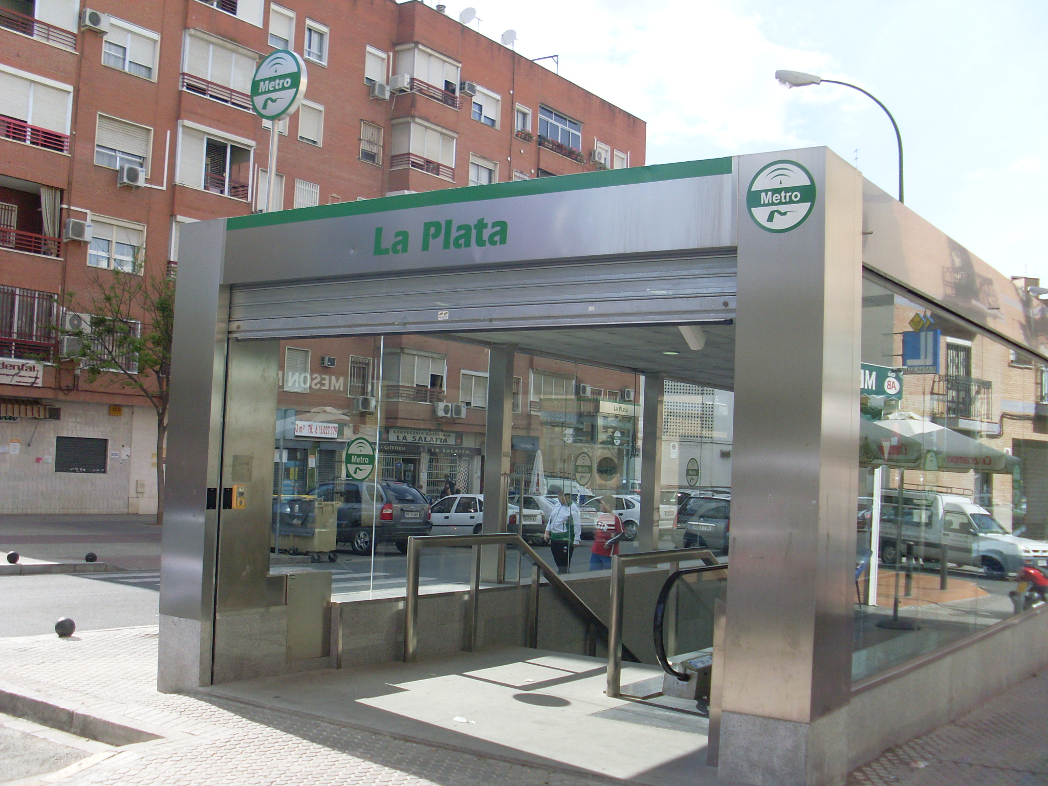 Seville Subway, La Plata station, access view.